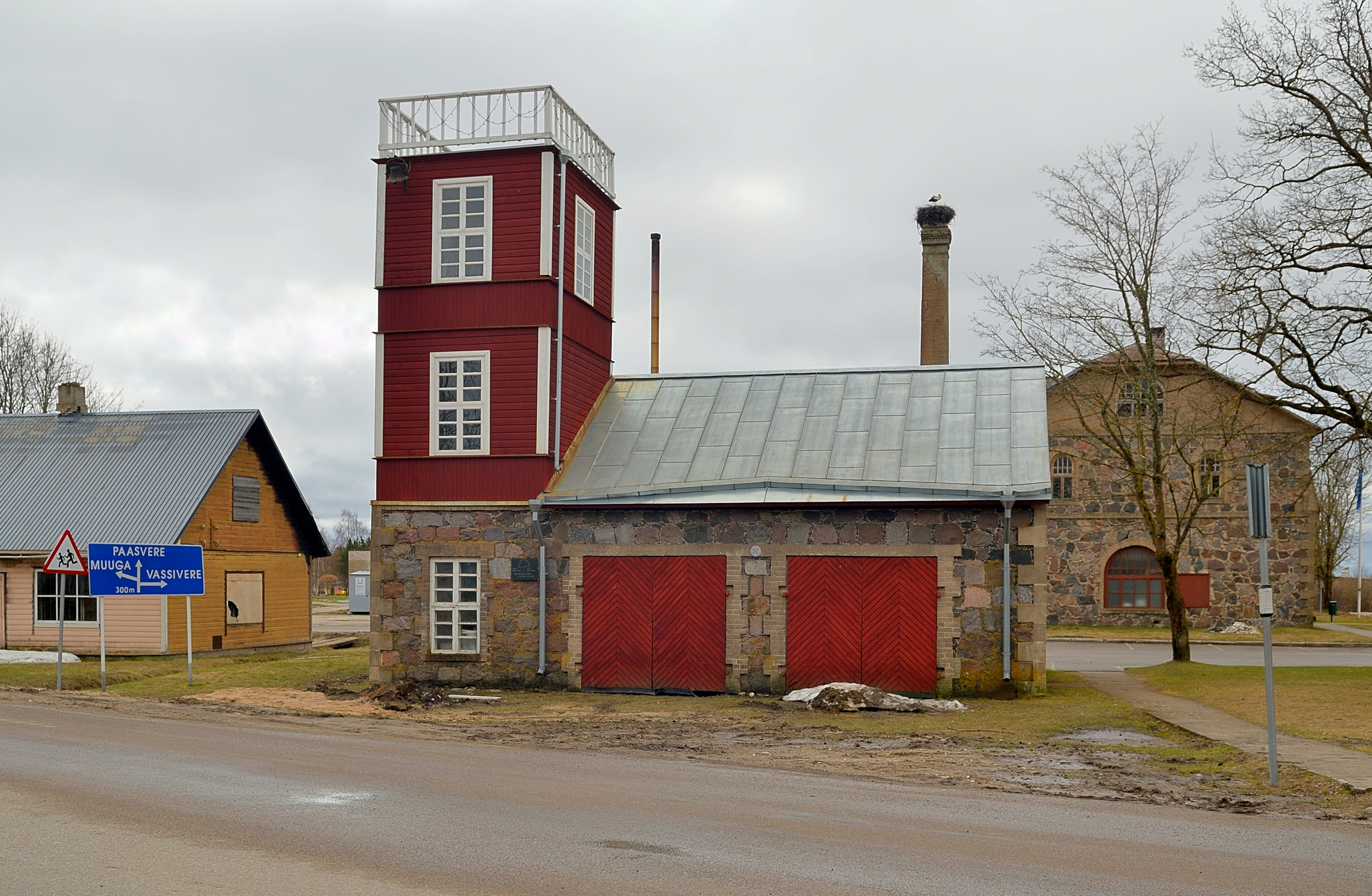 Laekvere fire shed